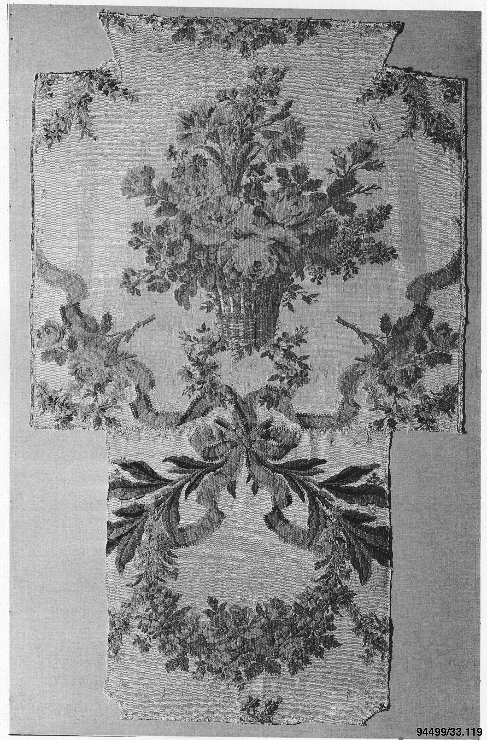 French, Lyons; Upholstery fragments; Textiles-Woven